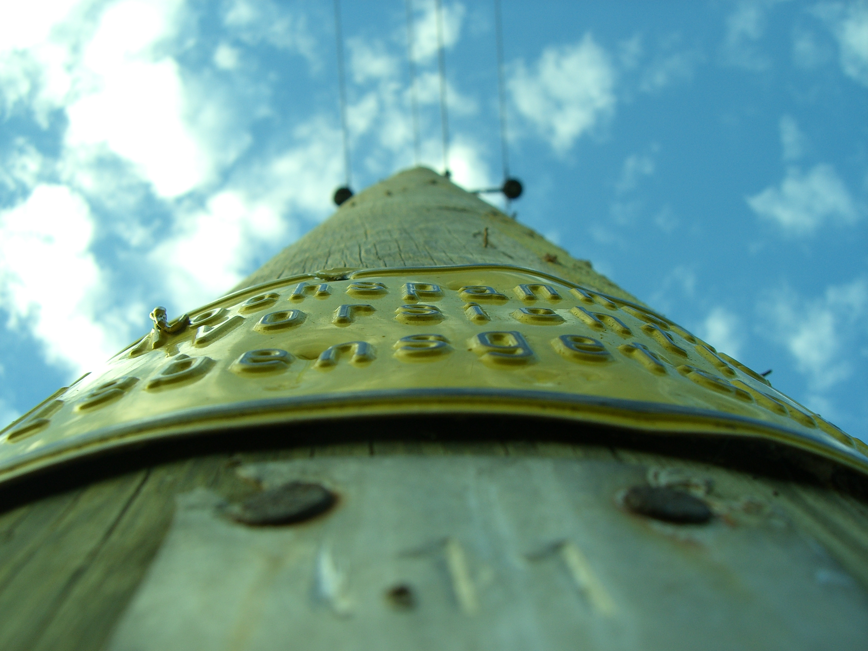 A electricity pylon seen from below with a sign stating (in German) "High tension/Attention!/Danger!". Picture taken in Mauerkirchen, Upper Austria, Austria.